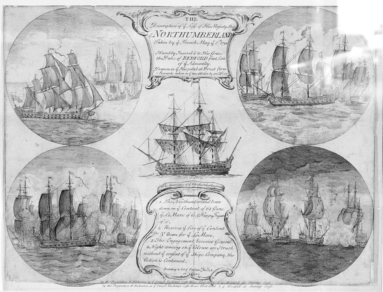 The Description of ye Loss of His Majestys Ship Northumberland Taken by ye French May ye 8th 1744.